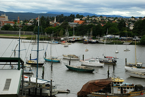 North Esk River and port